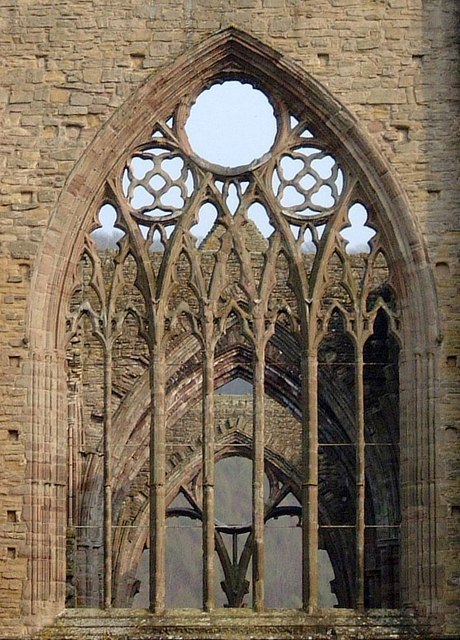 A Decorated Gothic window in Tintern Abbey, Monmouthshire, Wales